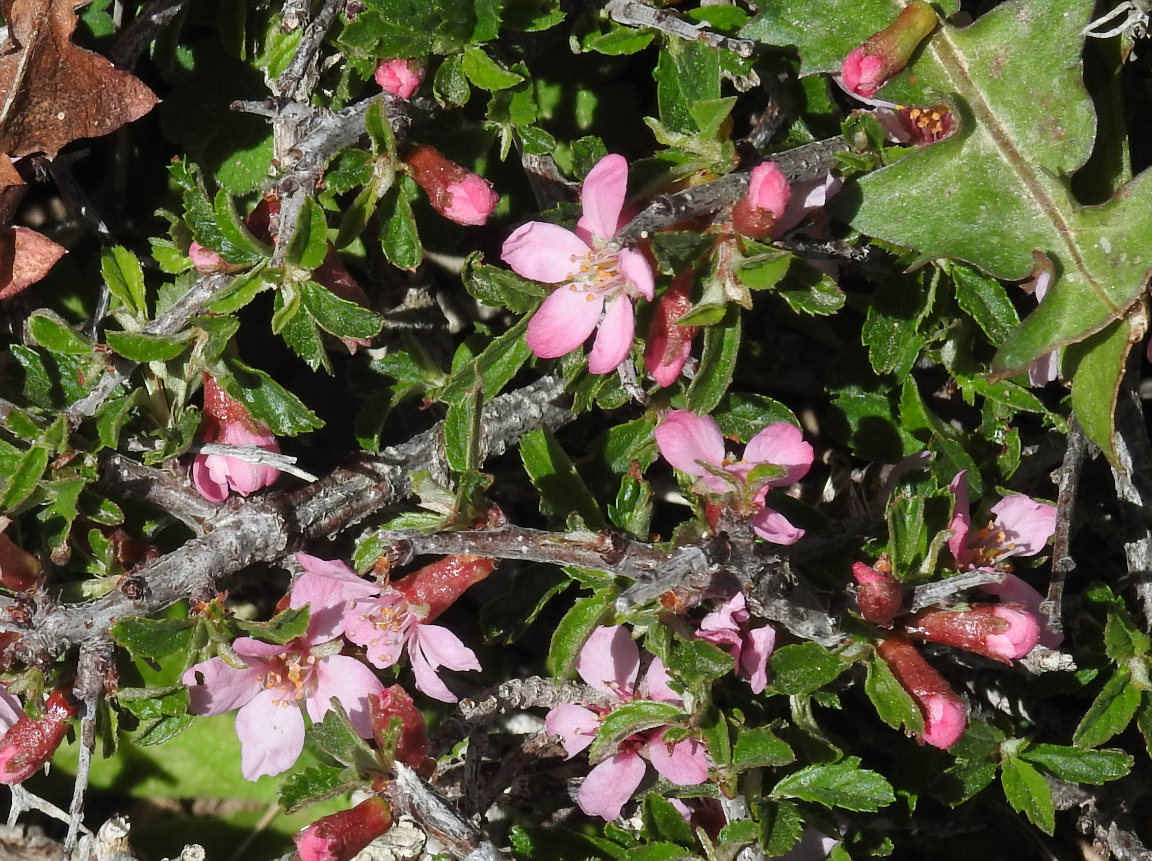 Prostrate cherry (Prunus prostrata), Crete, Greece